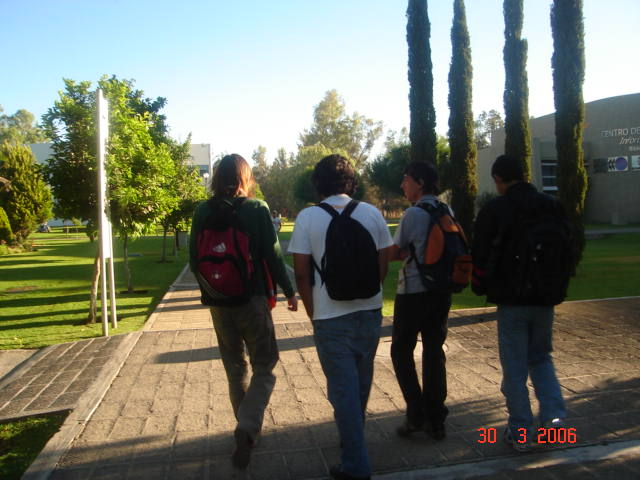 Students at my university's campus, making their way to the Dean's tower.